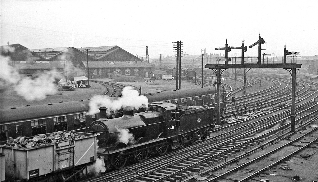 Derby No. 4 shed from Hulland street footbridge with goods train passing. View SE, towards Trent, Leicester and London (left), Burton, Birmingham etc. to right. The tender-first locomotive is ex-Midland 3F 0-6-0 No. 43657, recently ex-Shops. Behind it is one of the 'new-fangled' Diesel multiple-units then recently introduced on local services. No. 4 shed is beyond and further over can be glimpsed some of the locomotives on shed. The signal gantry is vintage Midland.